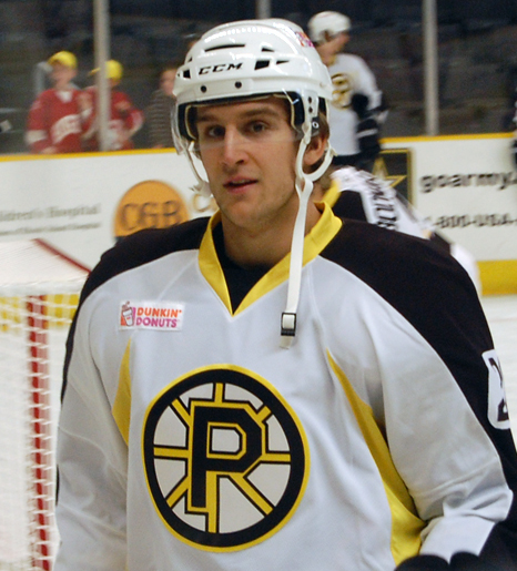 Lane MacDermid - Taken on October 17, 2010 Hartford @ Providence 10/17/10 (Set: 55) This photo also appears in sarah_connors' photostream. Tags: Providence Bruins hockey Hartford WolfPack NHL AHL